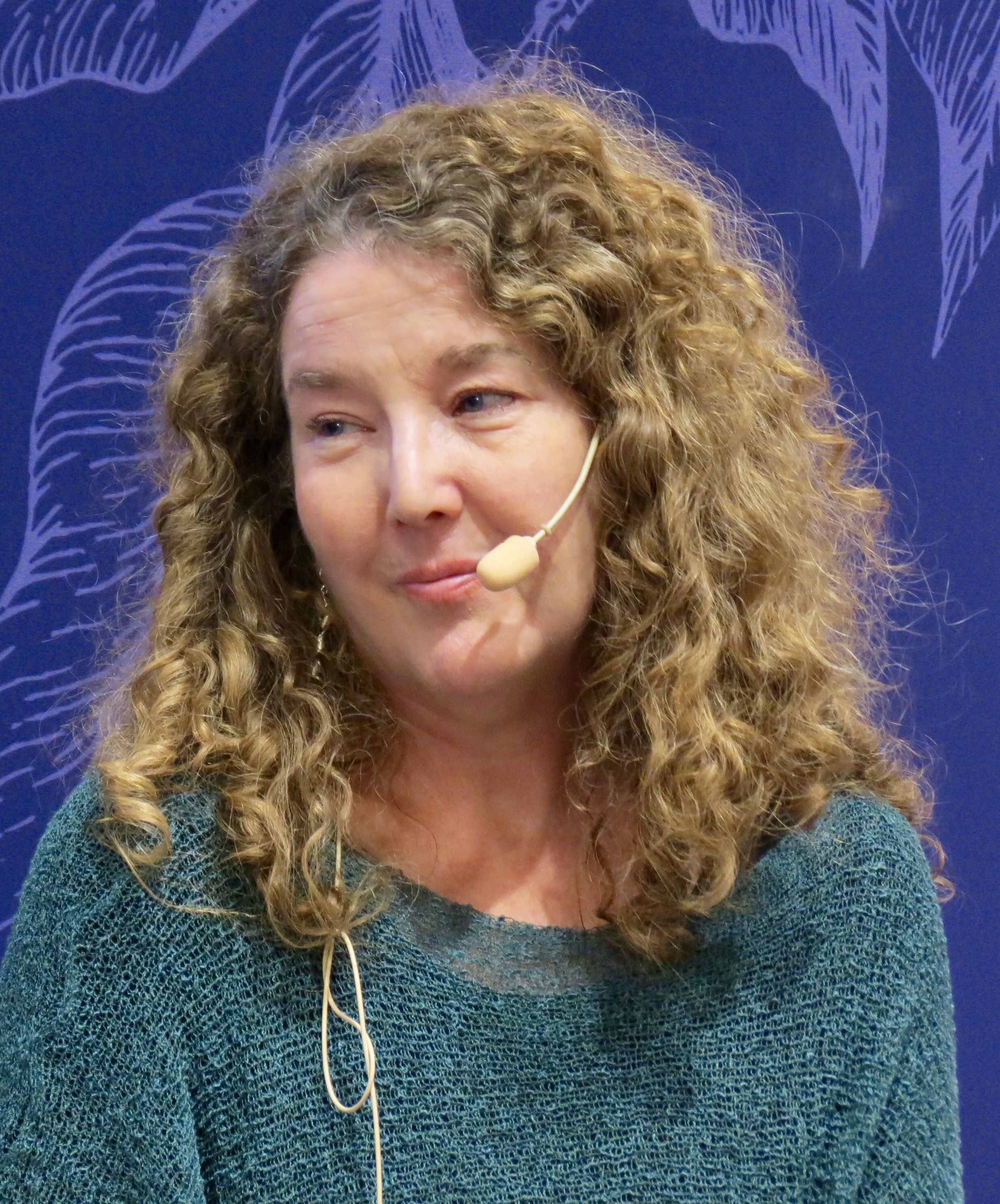 Anna-Karin Palm at the 2019 Göteborg Book Fair.